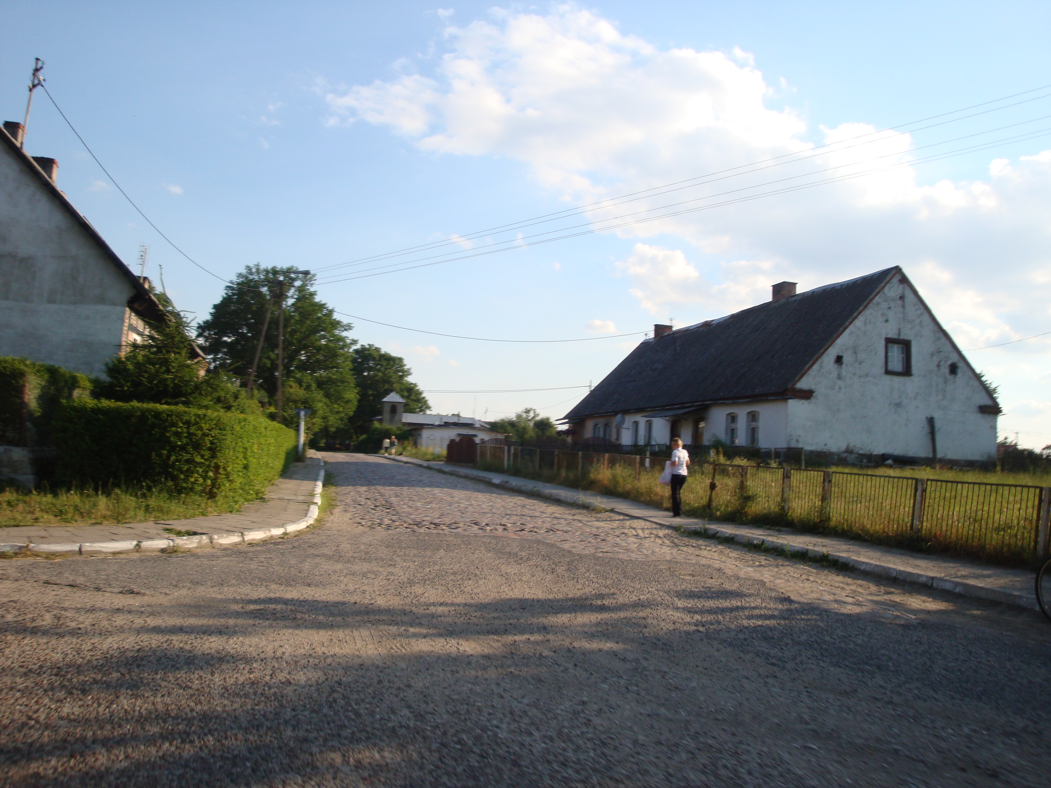 Szczypkowice-village in Pomeranian Voivodeship, Poland